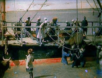 Frame using Kinemacolor (from Un rêve en couleur by George Albert Smith)